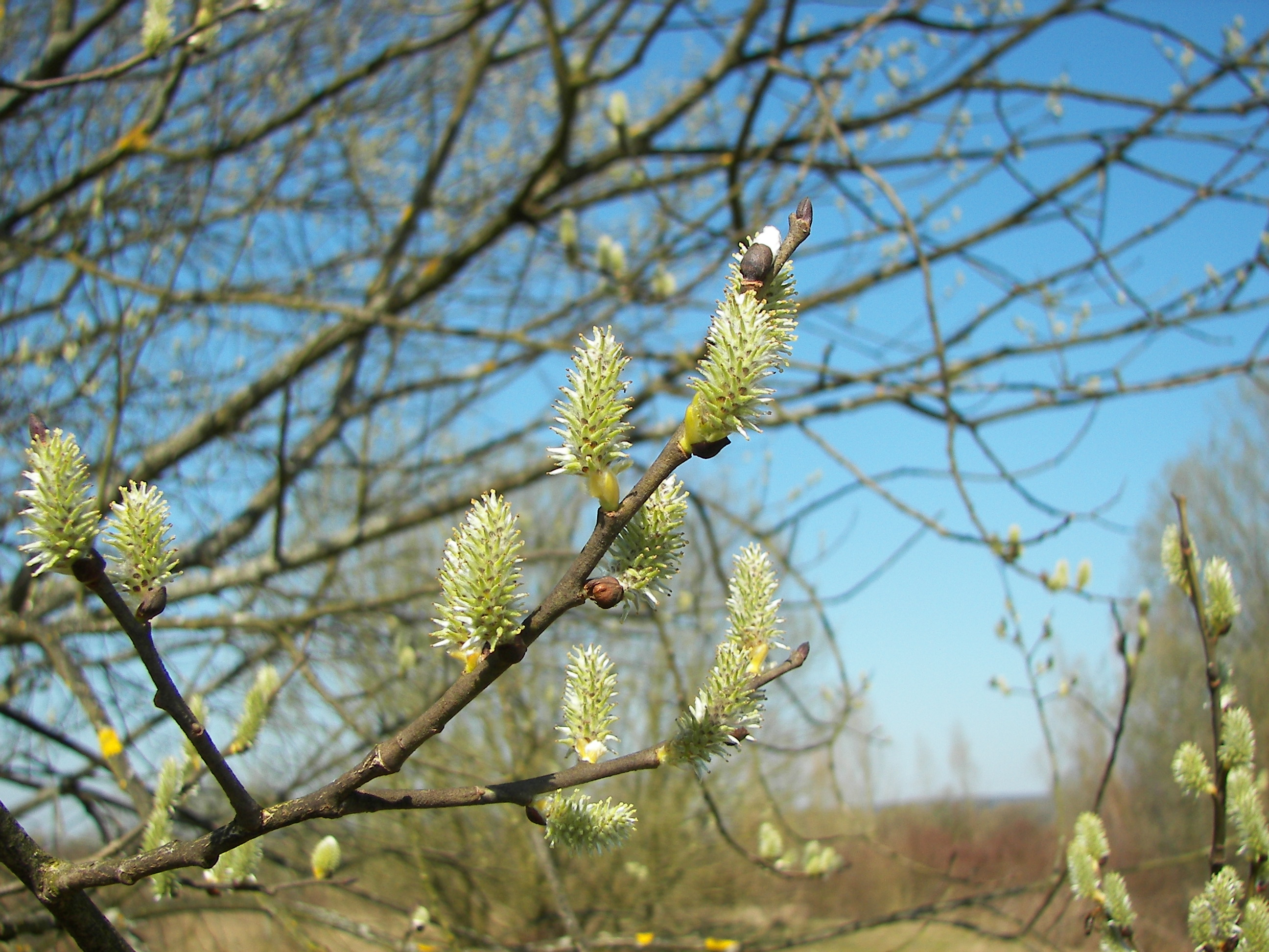 Goat Willow (Salix caprea), female catkins